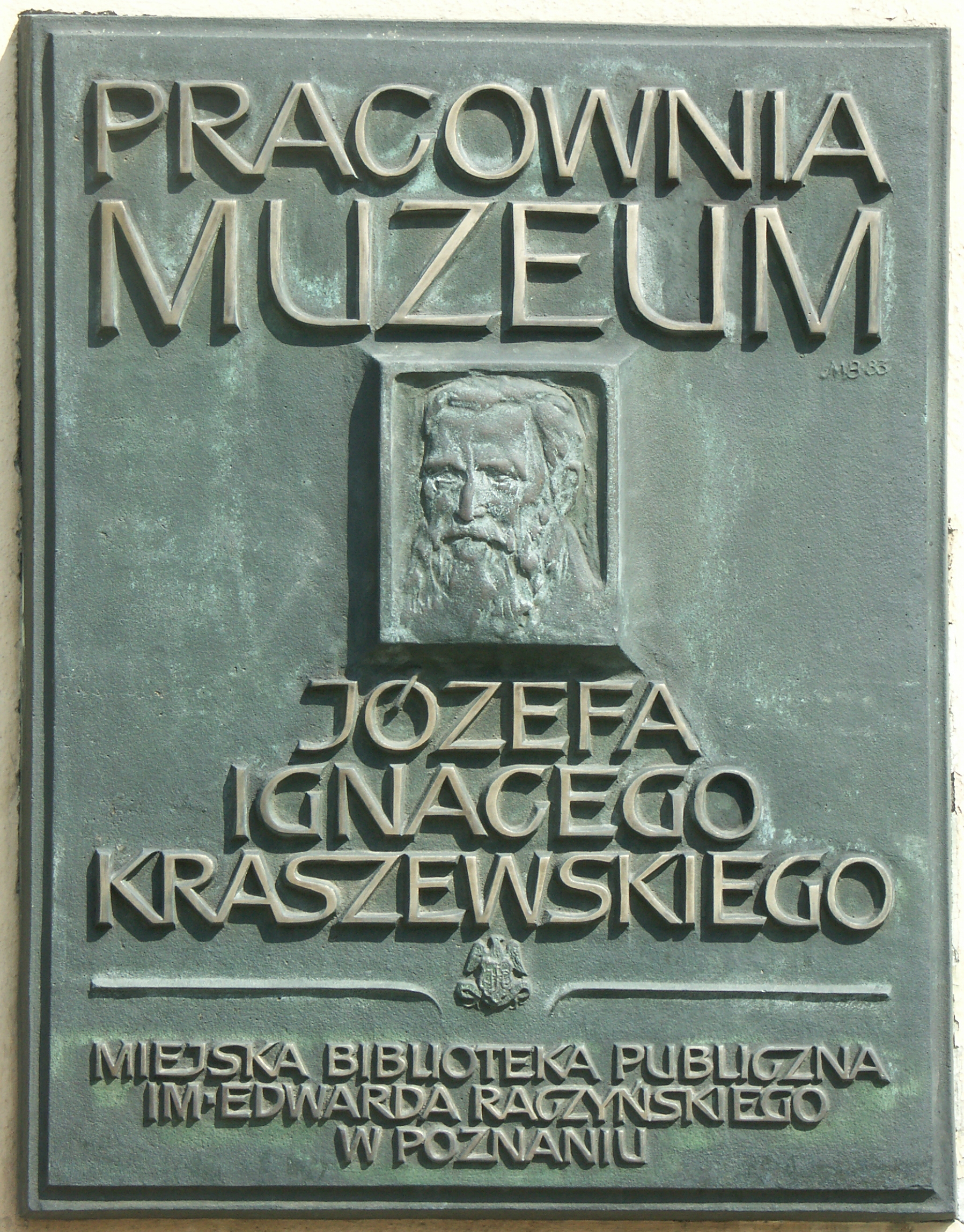 Plaque designed by Marian Banasiewicz on building J. I. Kraszewski Study-Museum at Wroniecka Street in Poznan